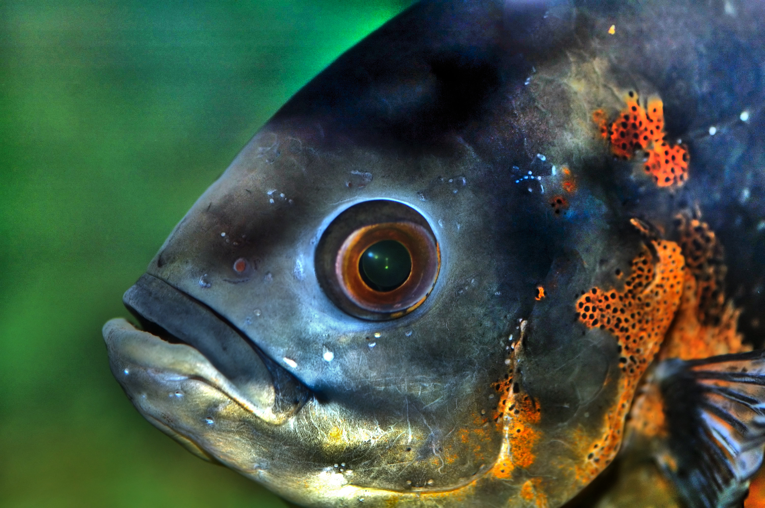 This image shows an Oscar (Astronotus ocellatus).